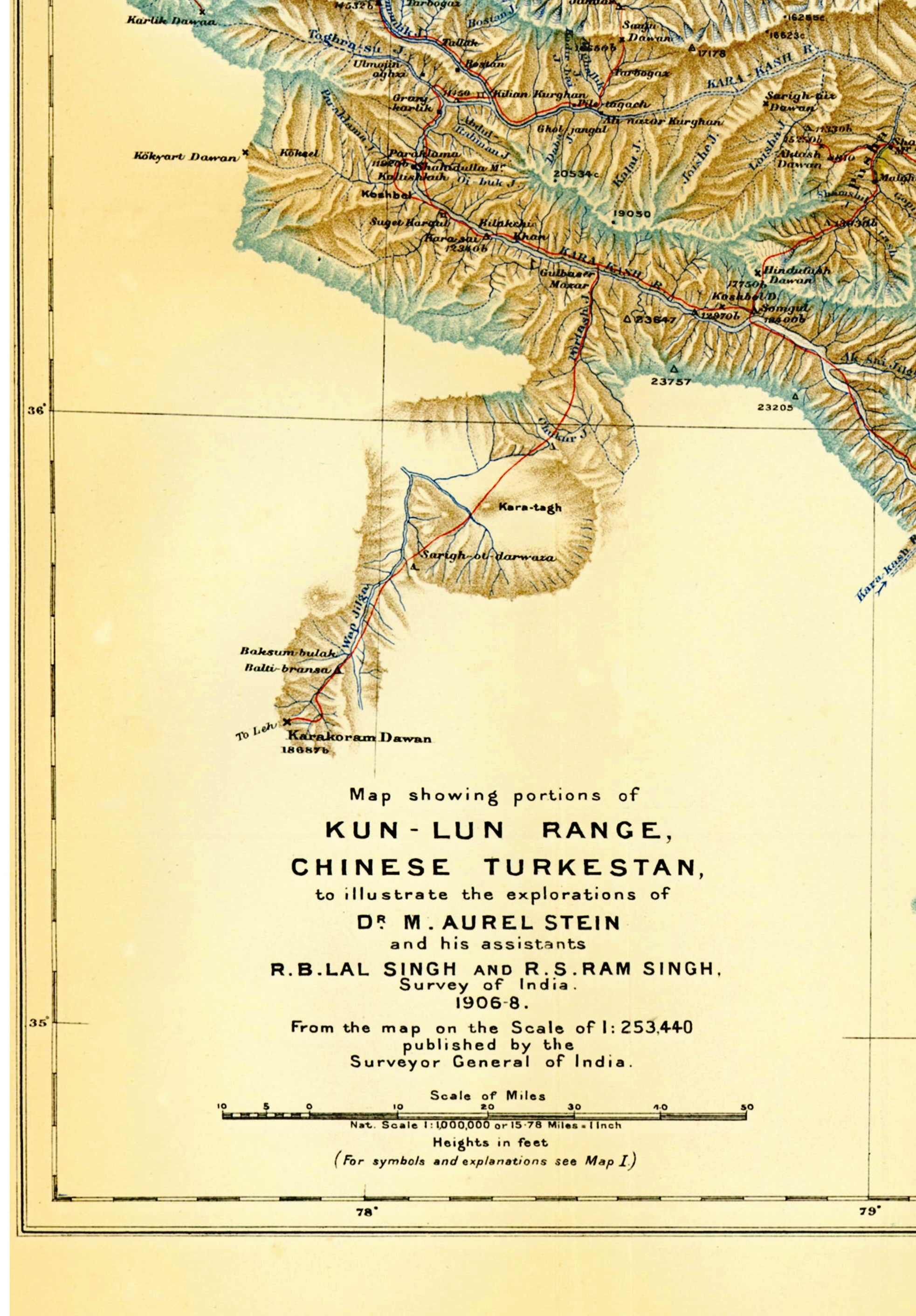 Map (produced by the Survey of India) and used to illustrate the paper "Note on Maps Illustrating Dr. Stein's Explorations in Chinese Turkestan and Kansu" by M. Aurel Stein, The Geographical Journal, Vol. 37, No. 3. (Mar., 1911), pp. 275-280. The image was download and reduced in size by Fowler&fowler«Talk» 03:10, 14 July 2007 (UTC)